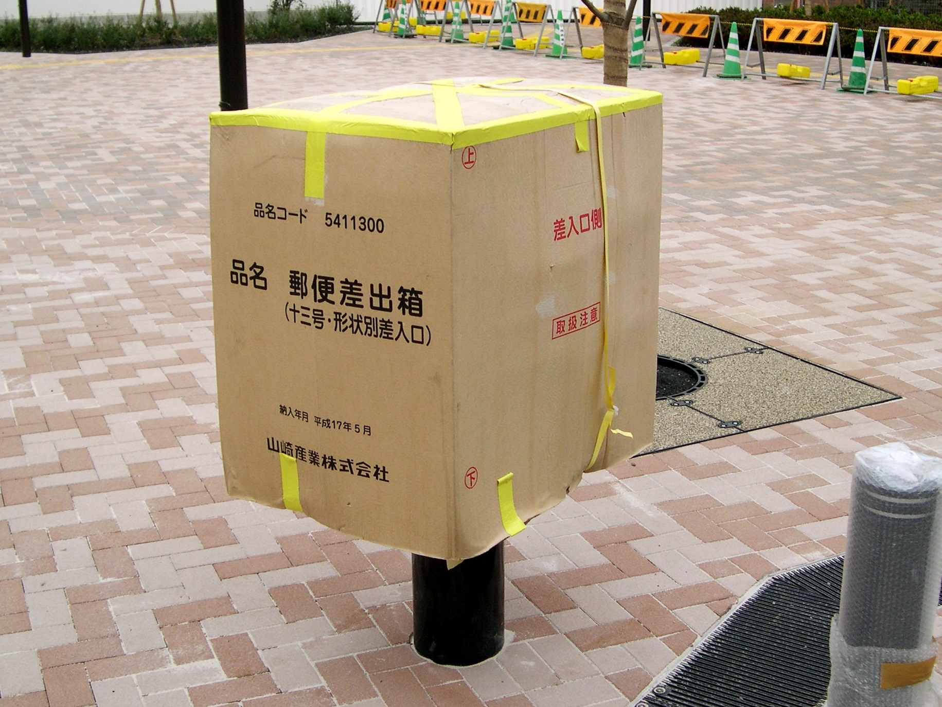 Japan Post postbox Model No. 13 in a corrugated fiberboard box.